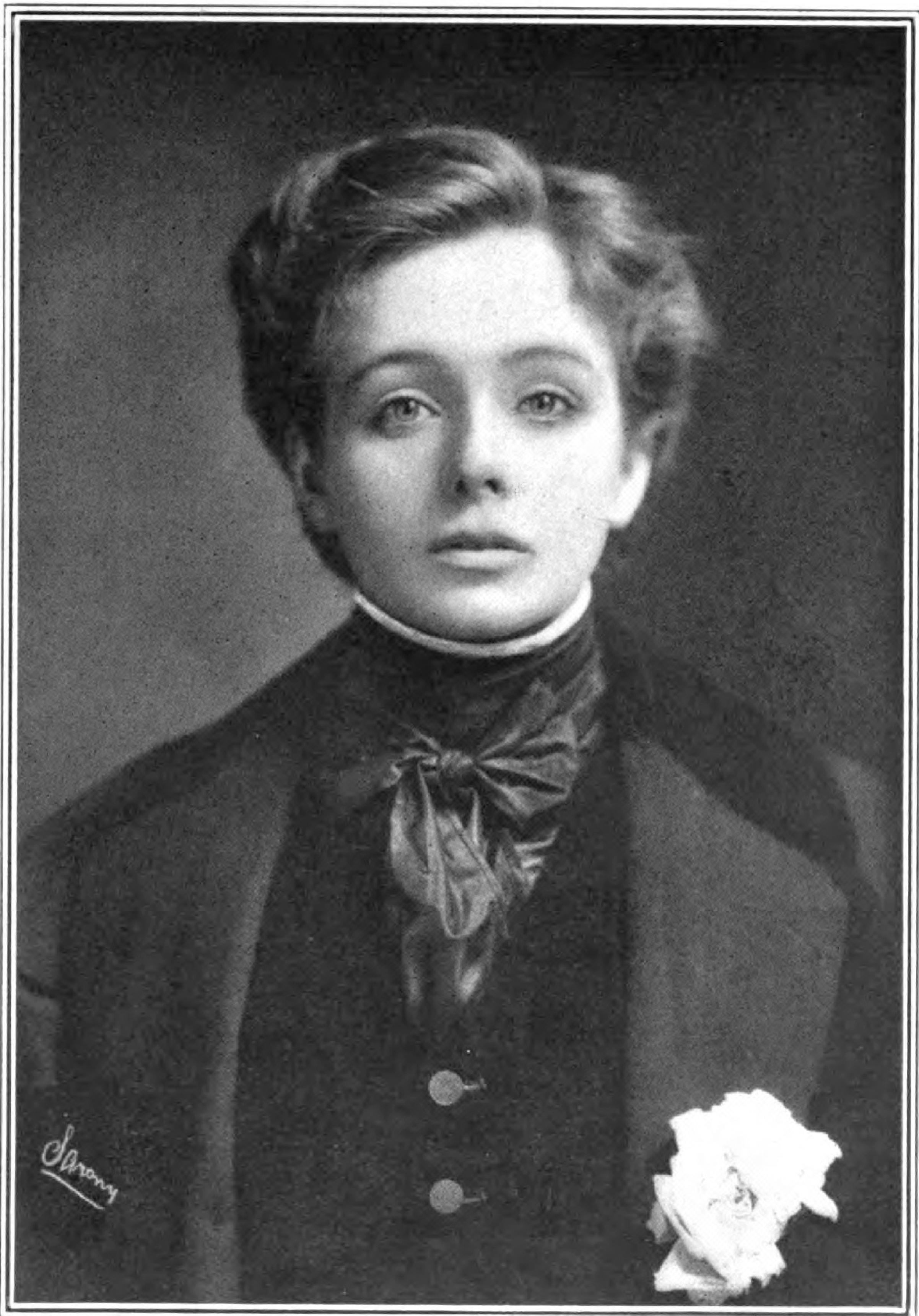 Maude Adams as Napoleon II in L'Aiglon by Edmond Rostand